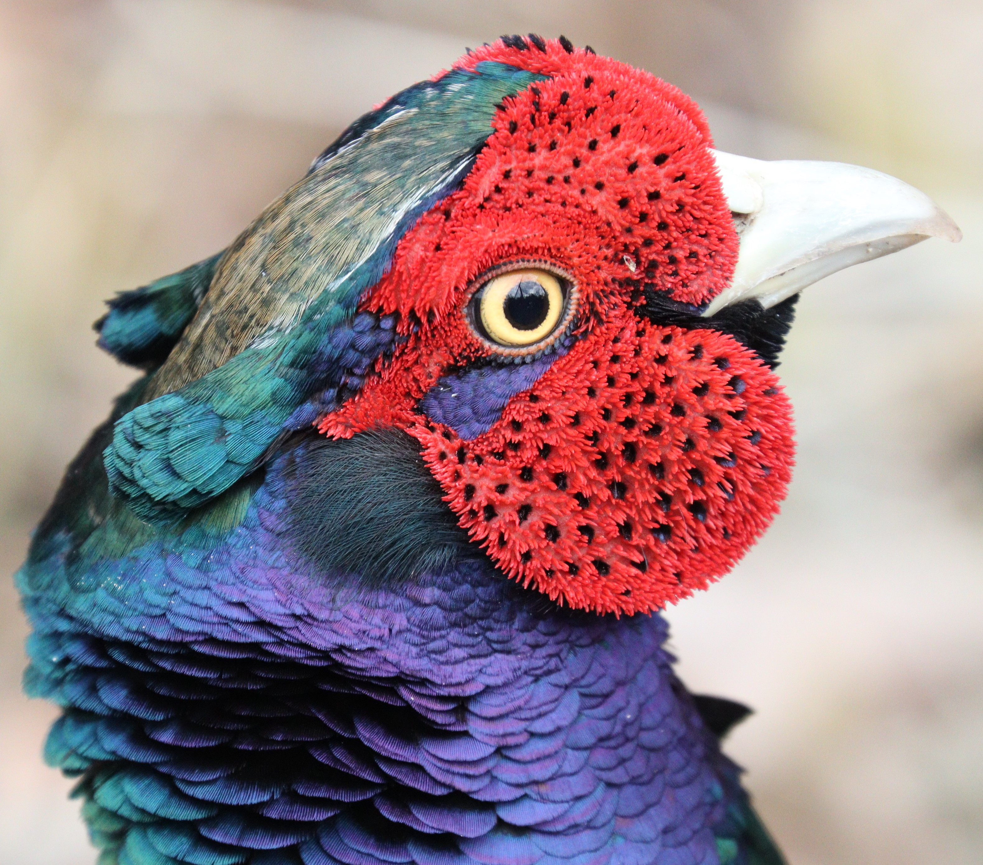 Head of Phasianus versicolor robustipes, male in Shima, Mie Prefecture, Japan.